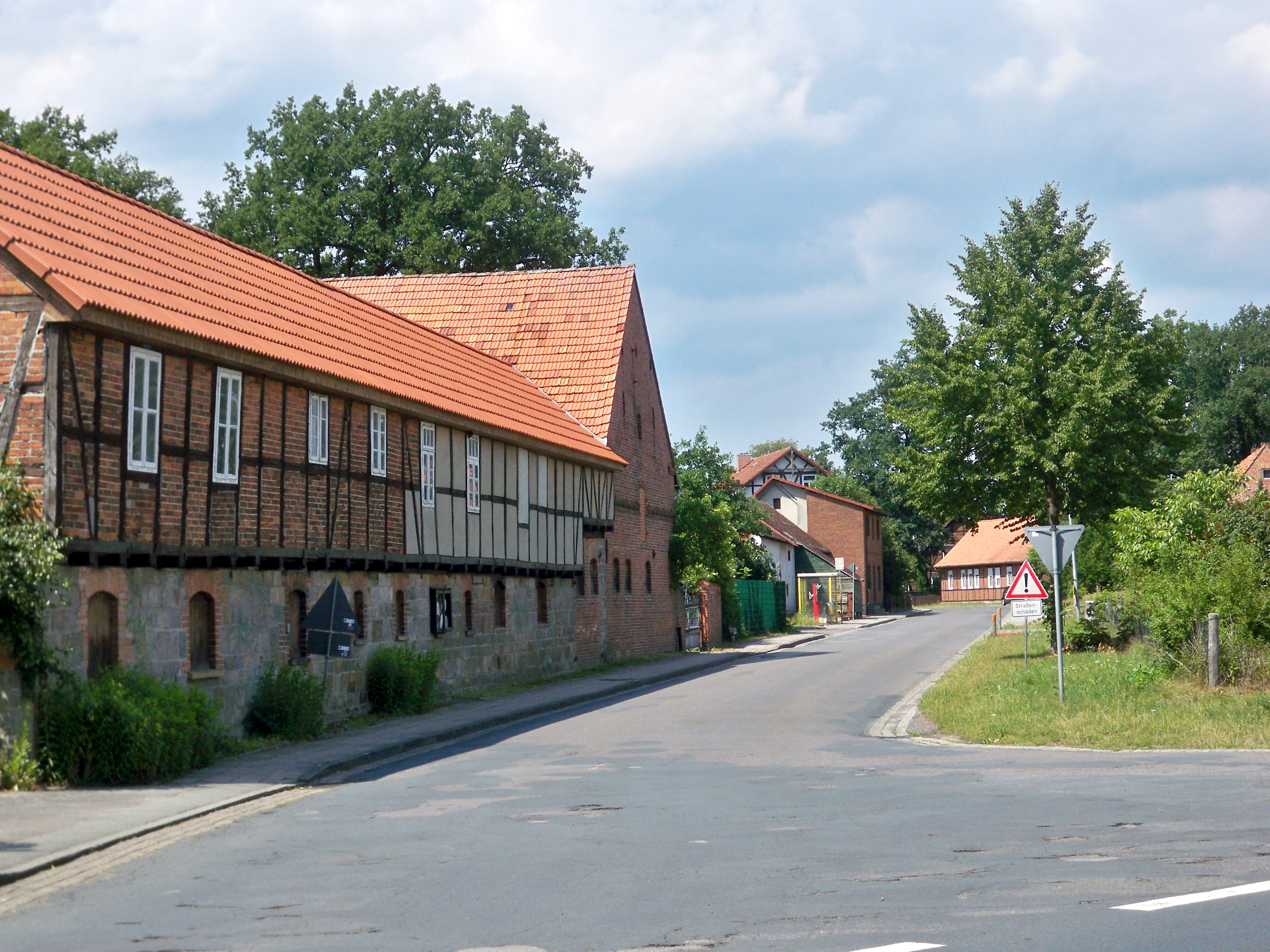 Croya, Lower Saxony, Main junction